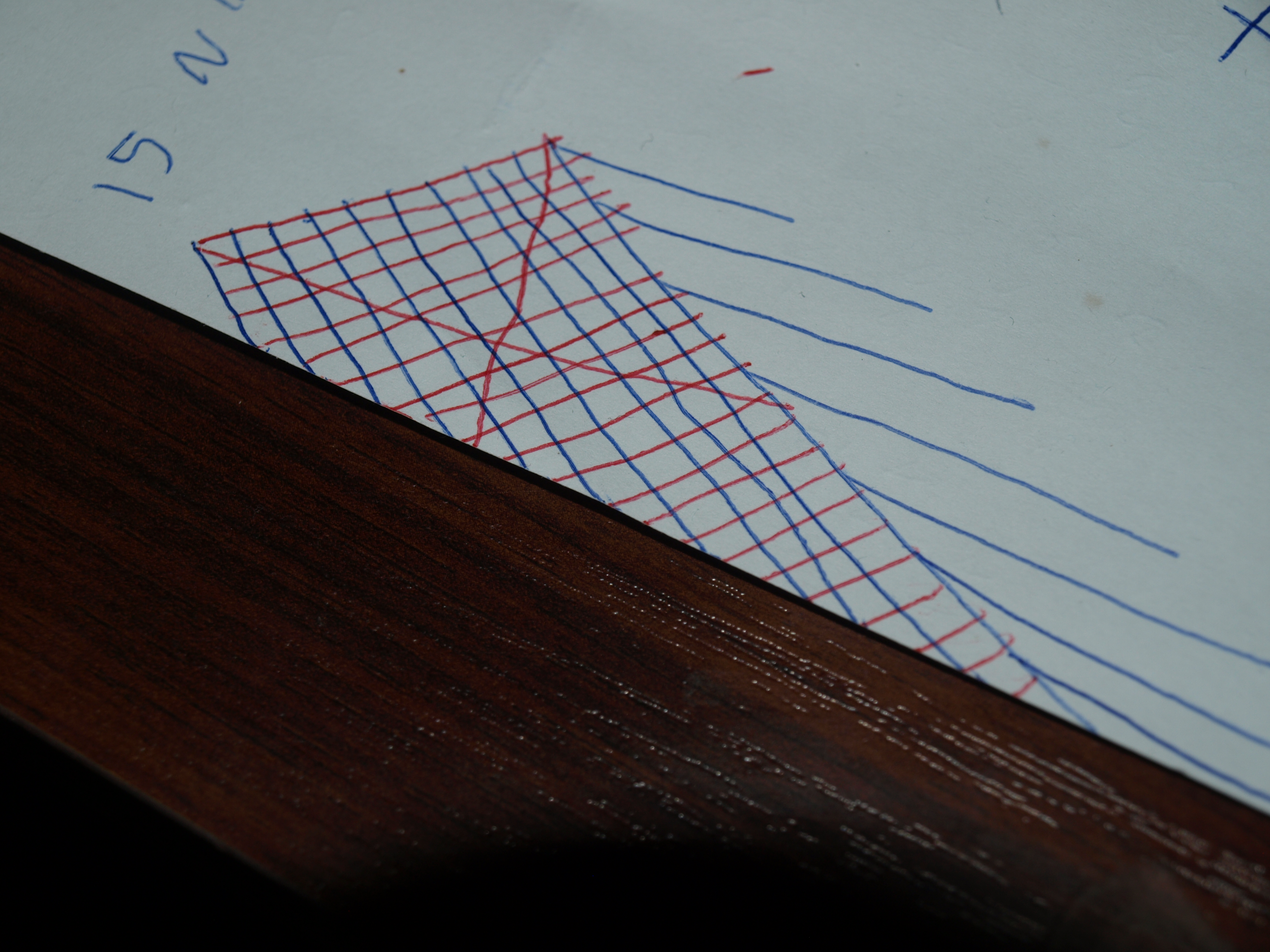 A photo of a doodle that I made for whatever reason.